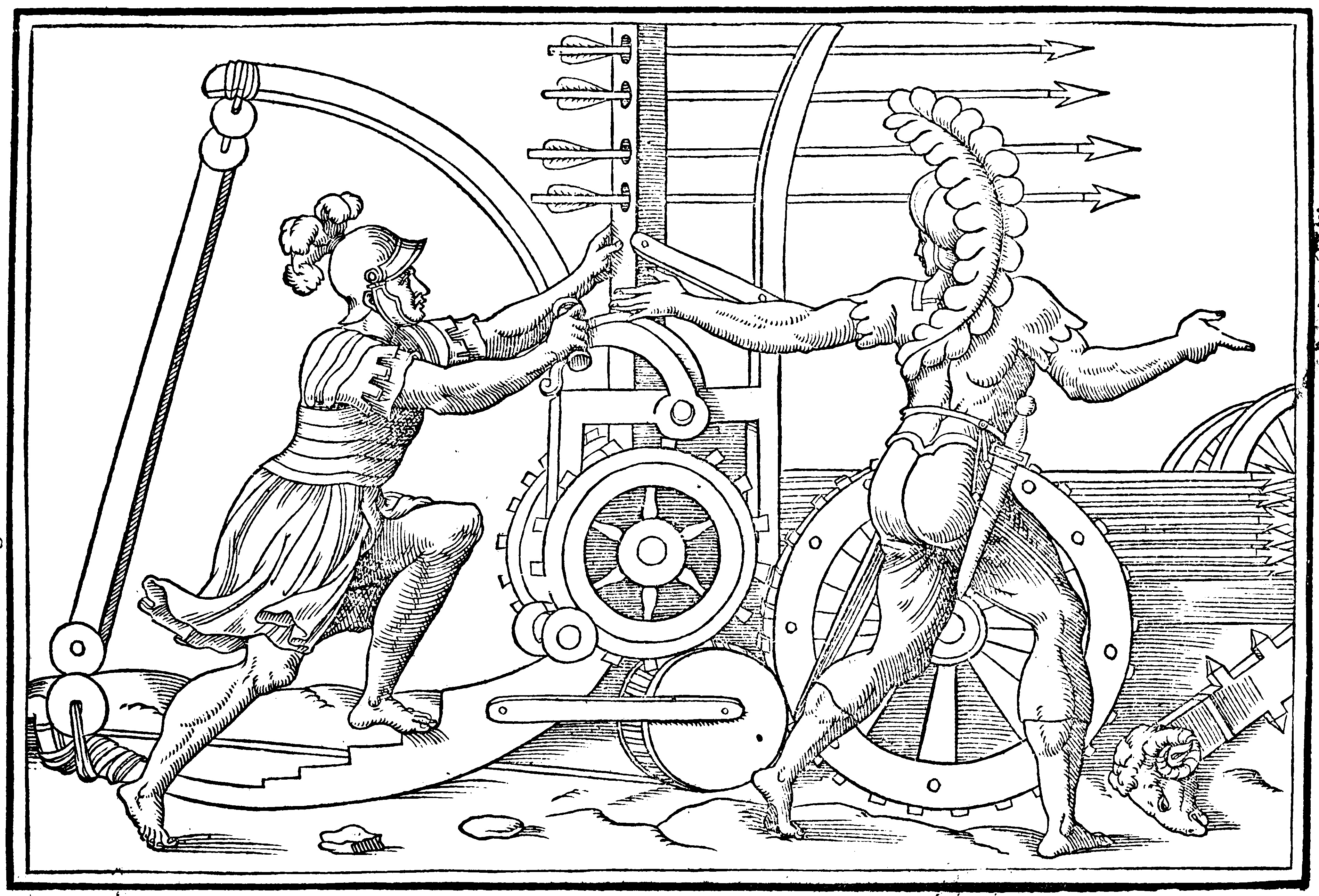 Title: Discours de la religion des anciens Romains : de la castrametation & discipline militaire d'iceux. Des bains & antiques exercitations grecques & romaines ... Year: 1581 (1580s) Authors: Du Choul, Guillaume, 16th cent Du Choul, Guillaume, 16th cent. Discours sur la castrametation et discipline militaire des Romains Eskrich, Pierre, ca. 1530-ca. 1590, engraver Rouillé, Guillaume, 1518?-1589, printer Subjects: Military art and science Baths Baths Publisher: Lyon : G. Roville